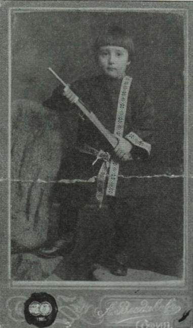 Stamen Panchev's son: Pavel Panchev